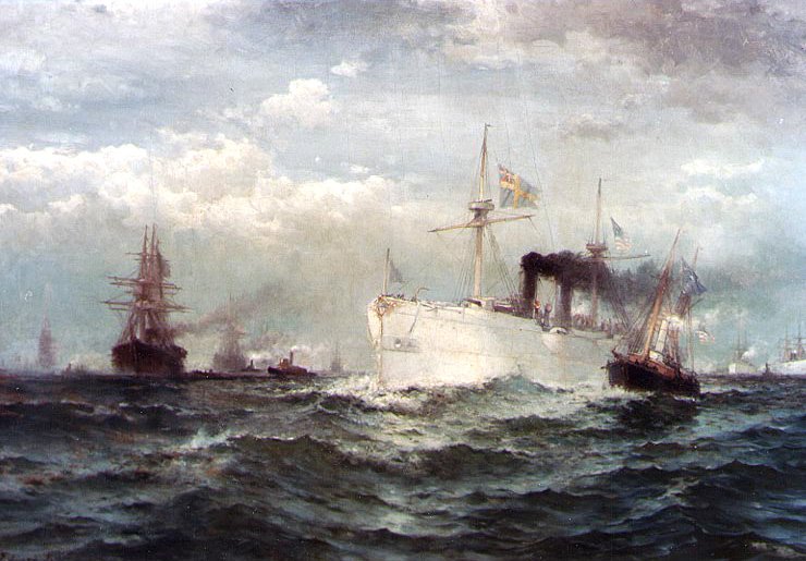 It depicts USS Baltimore (Cruiser # 3) departing New York Harbor to return the remains of John Ericsson to his native Sweden. Note the Swedish ensign flying from the ship's foremast.